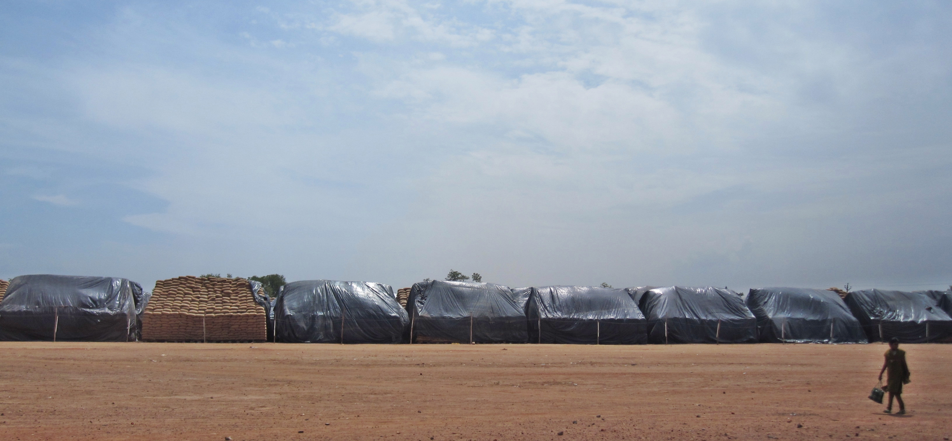 Heaps of grain bags, Satyagnana Sabha, Vadalur